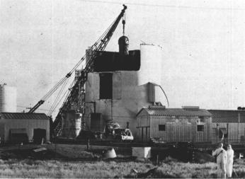 US Atomic Energy Commission image of SL-1 reactor core being removed from National Reactor Testing Station facility in Idaho